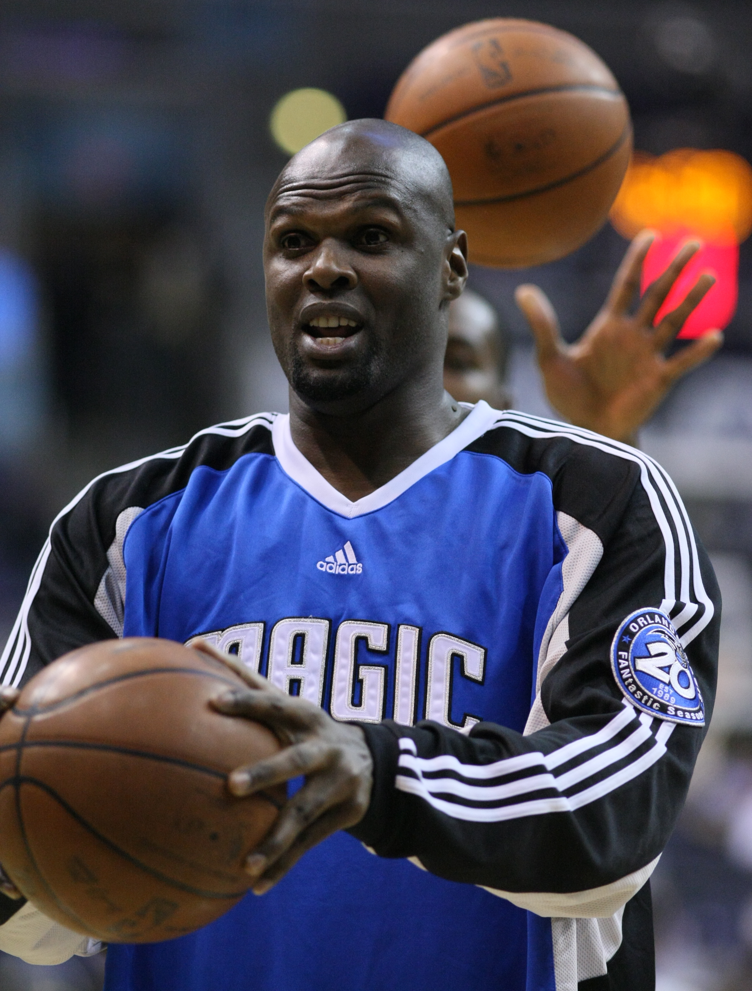 Adonal Foyle at the Washington Wizards v/s Orlando Magic game on 11/27/08